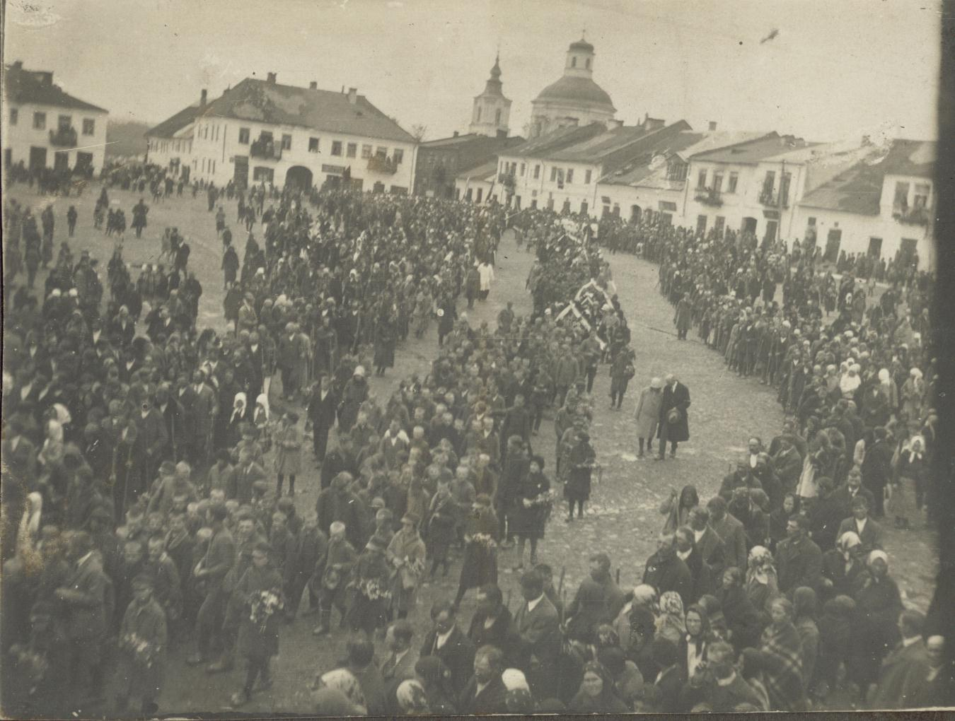 The funeral of Jakub Zysman (1826-1926), Polish doctor, social worker, father of Brunon Jasieński; Klimontów 1926